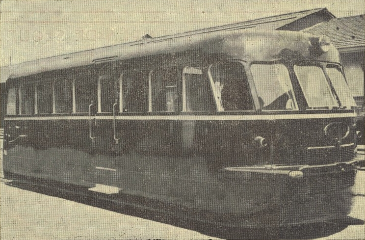 Wood gas generator railcar, of the M1 to M7 series of the Companhia dos Caminhos de Ferro Portugueses (Portuguese Railways Company). This photograph was published on the Gazeta dos Caminhos de Ferro magazine No. 1401, of the 1st May 1946, and scanned by the Hemeroteca Municipal de Lisboa.